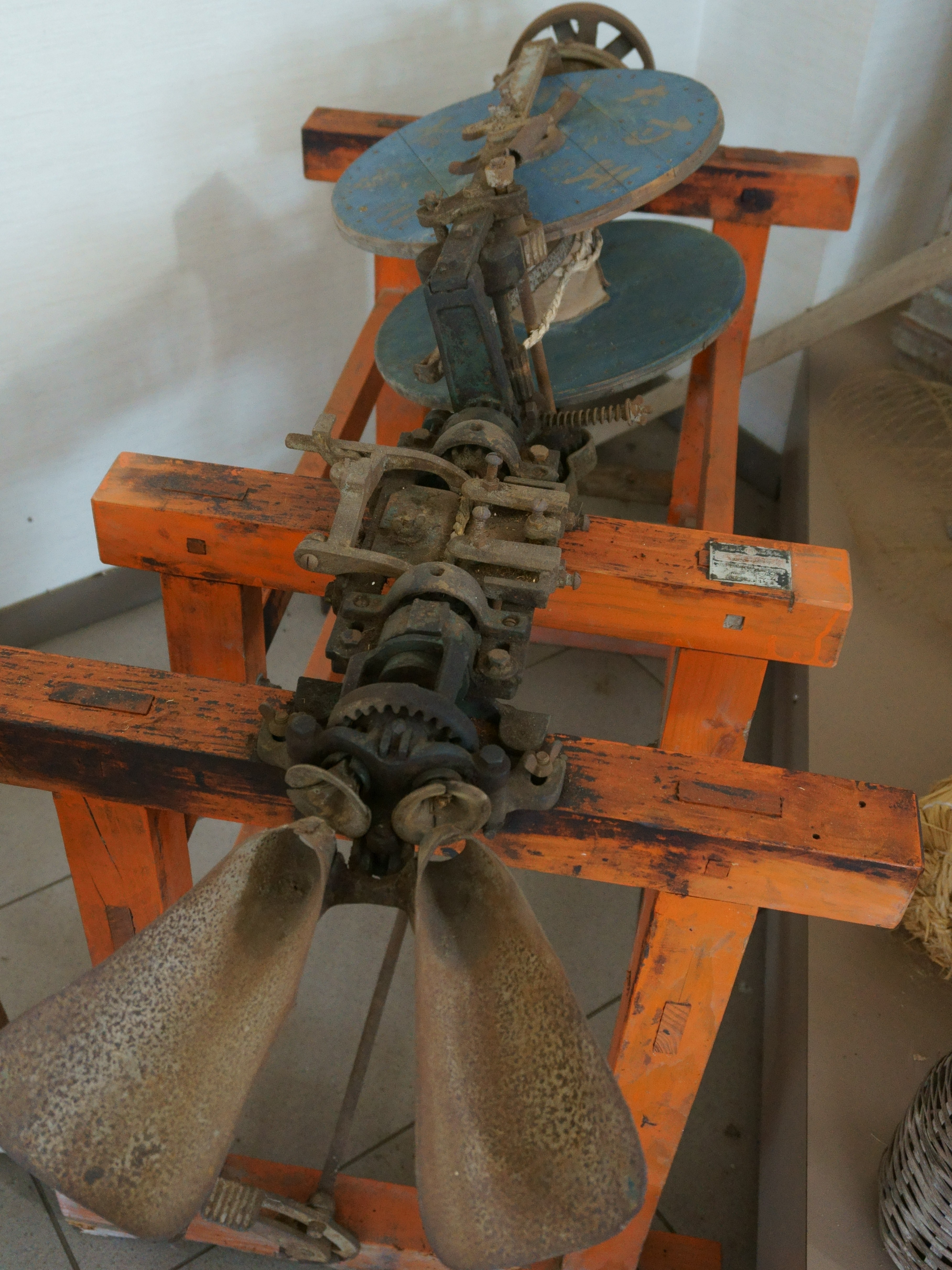 An old Japanese pedal ropemaking machine. Use rice straws. It is displayed at Fureai Kantaku-kan, in Shiroishi, Saga prefecture.